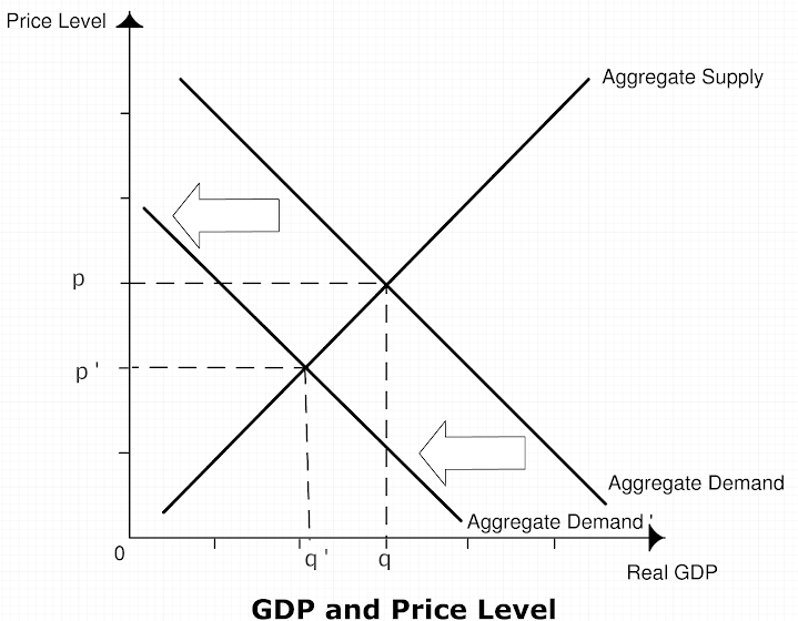 Effects of aggregate demand shifting in on GDP.